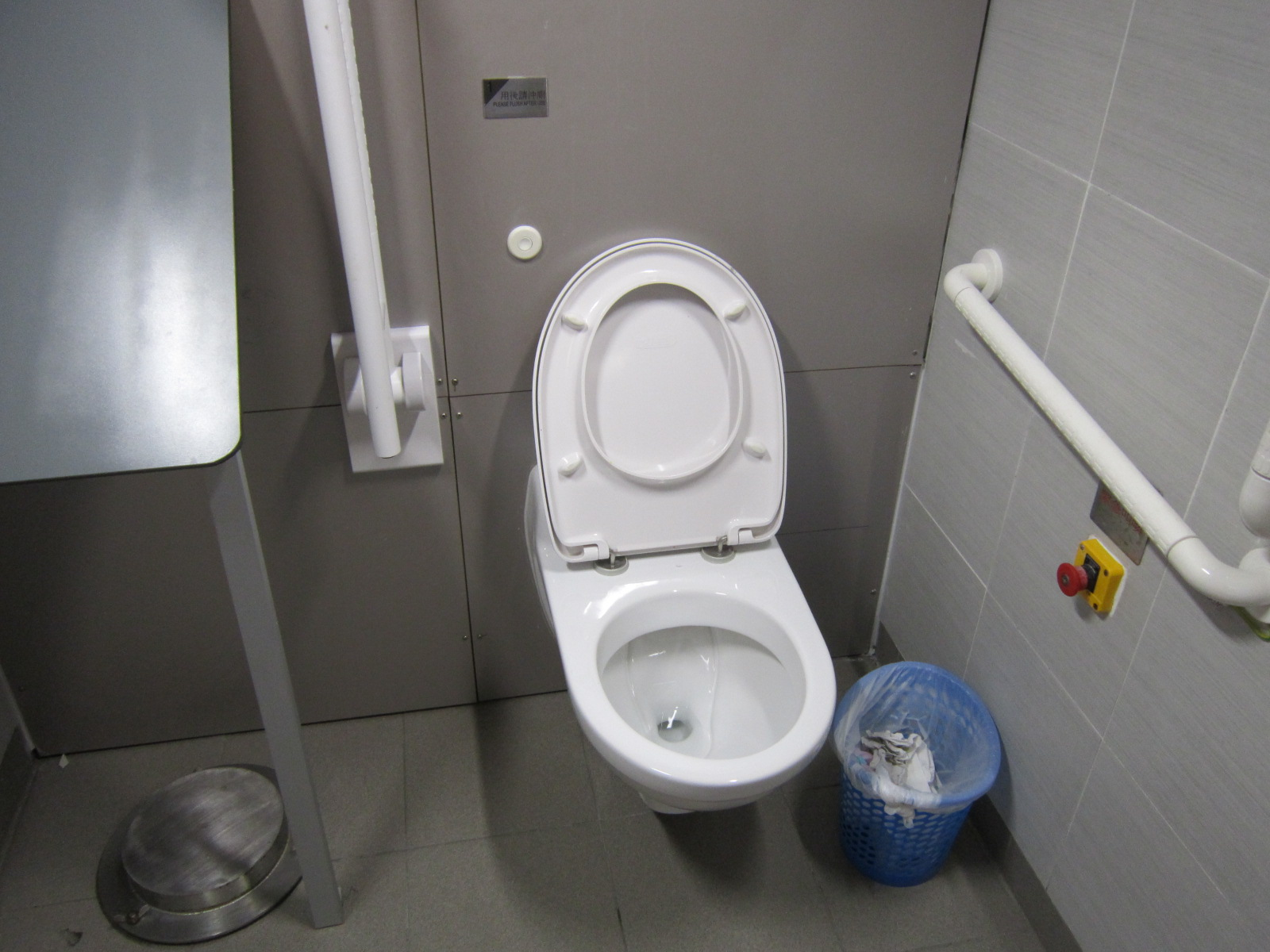 JETS 59M wall-mounted vacuum toilet inside Lau Fau Shan Roundabout Public Toilet